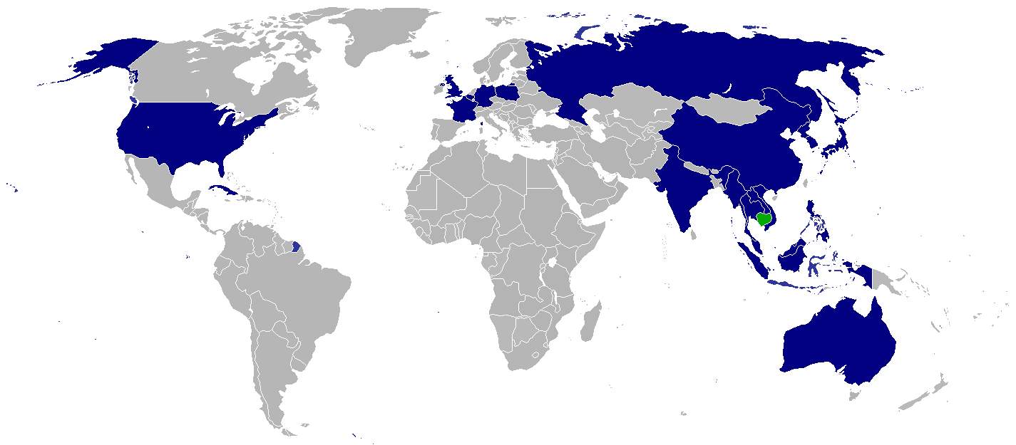 Diplomatic missions of Cambodia